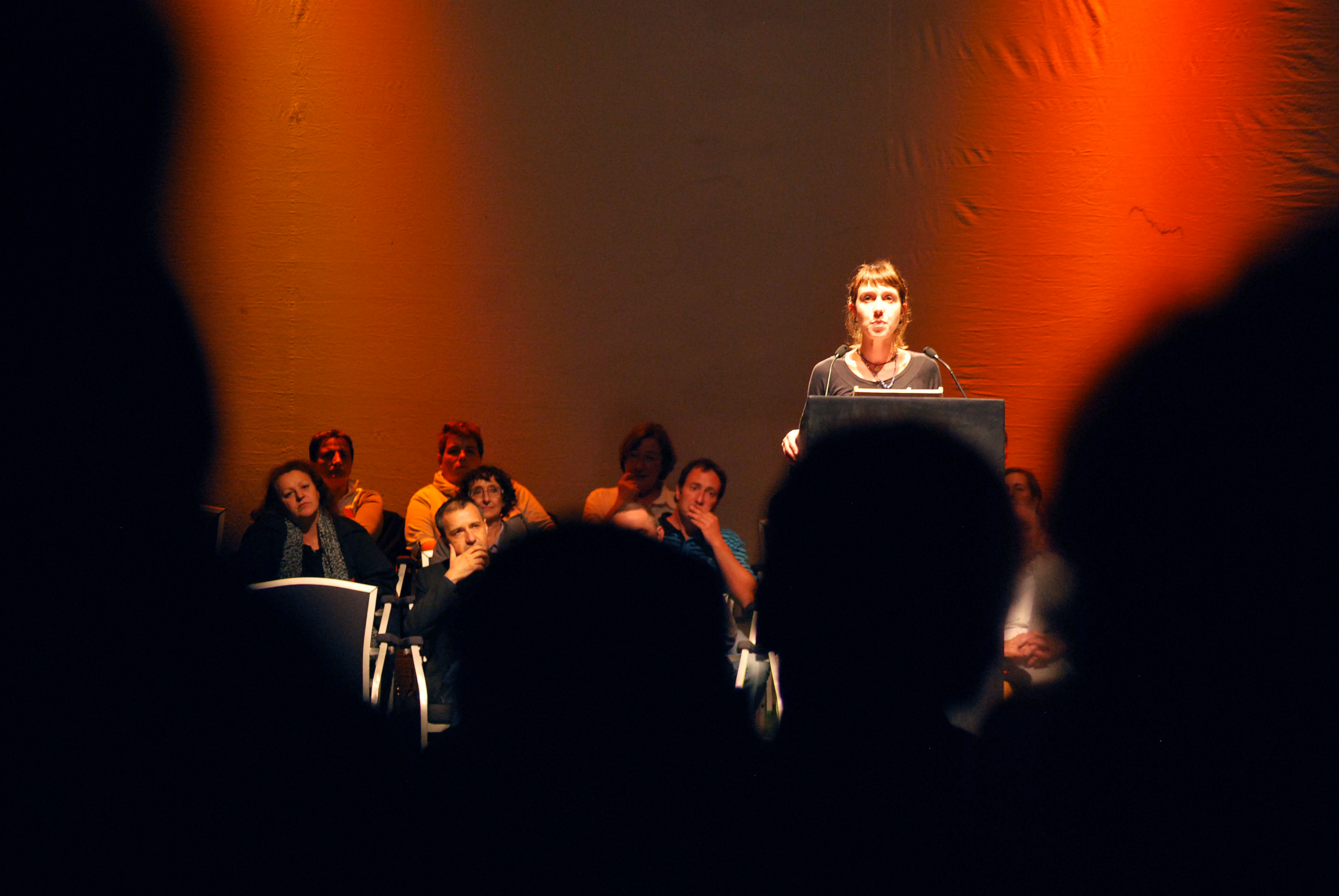 Aurore Martin, member of Batasuna, appearing on a public meeting after 6 months of clandestinity.